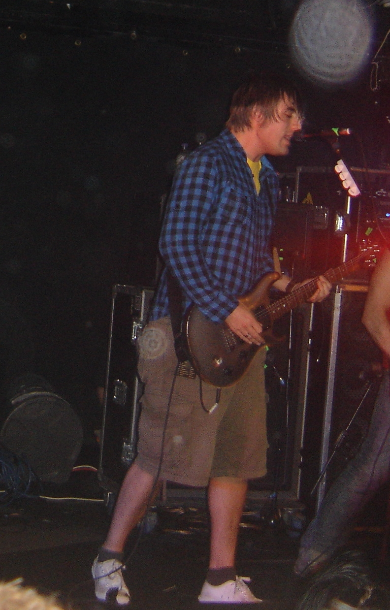 Vocalist and guitarist of UK rock band Fightstar, Charlie Simpson